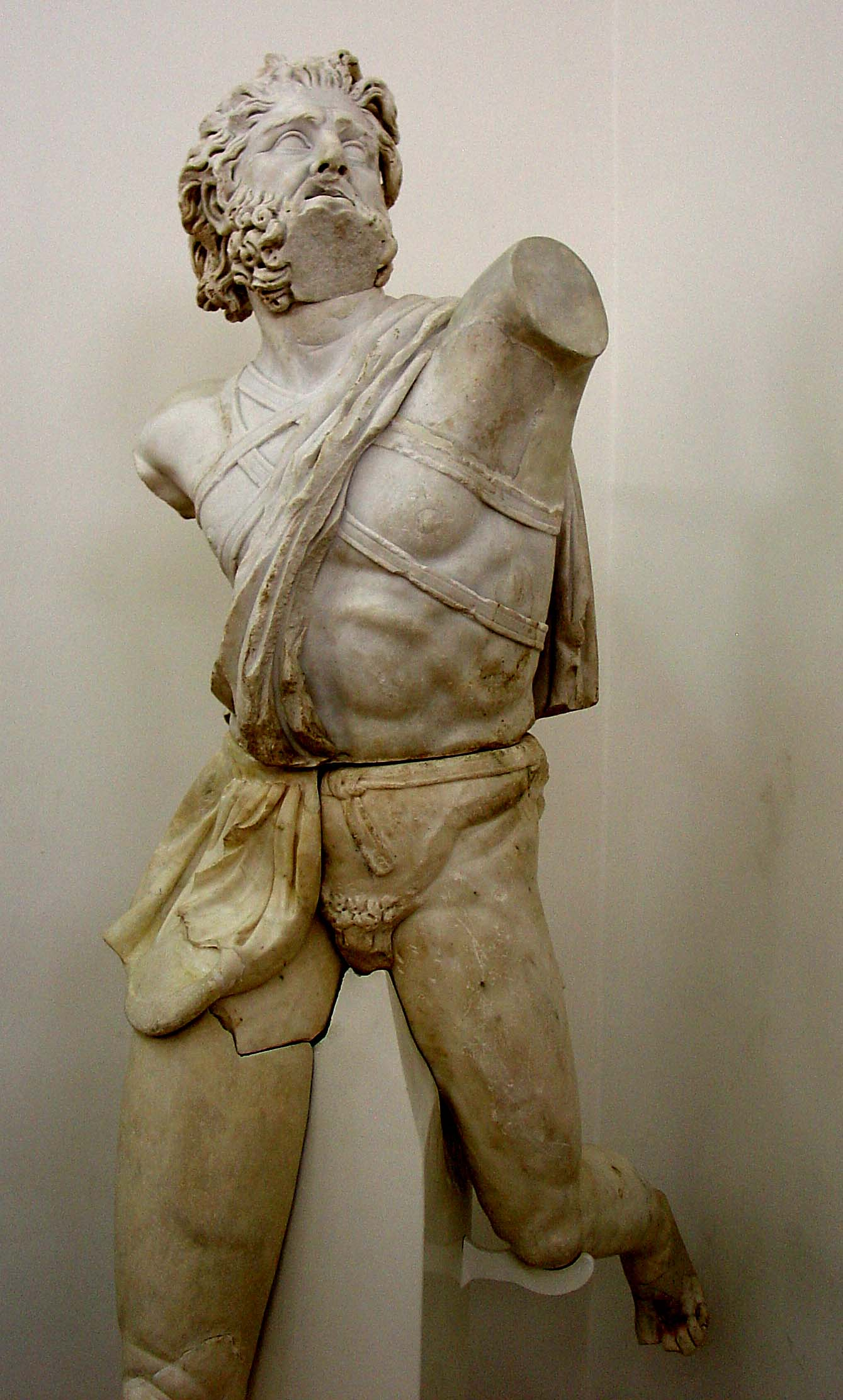 Roman copy (2d century A.D.) of Hellenistic original (2d century B.C.) Archaeological Museum, Amman, Jordan This stunning sculpture illustrates the very high level of sophistication, wealth, and culture that existed in Roman Philadelphia (Amman).